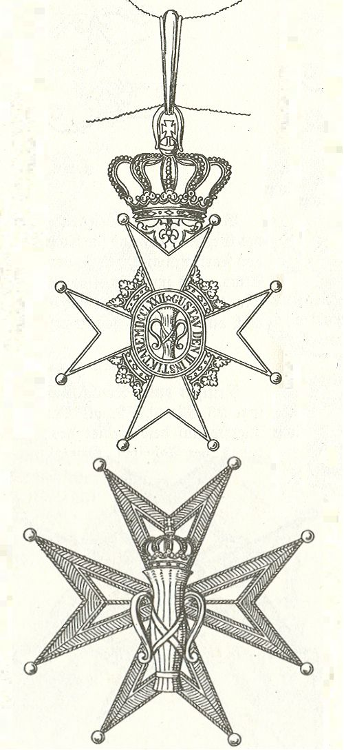 Commander in the Order of Vasa Sweden